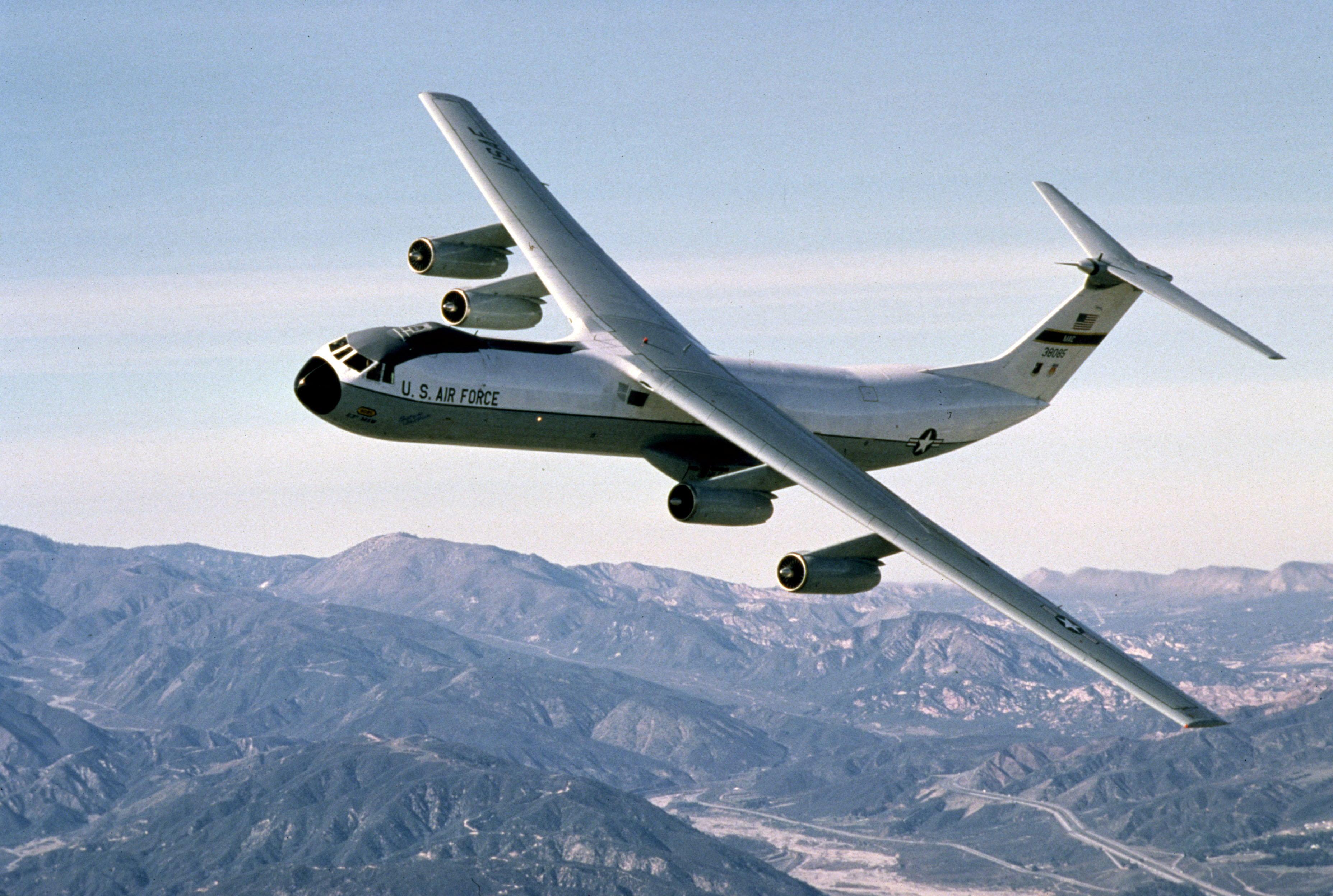 A U.S. Air Force Lockheed C-141B-10-LM Starlifter (in October 1984?). This aircraft (s/n 63-8085, c/n 300-6016) was later converted to an C-141C. It was retired to the AMARC as CR0190 on 14 October 2003. The date given (Oct 1964) has to be wrong, as the C-141B was converted from the C-141A starting in 1977.